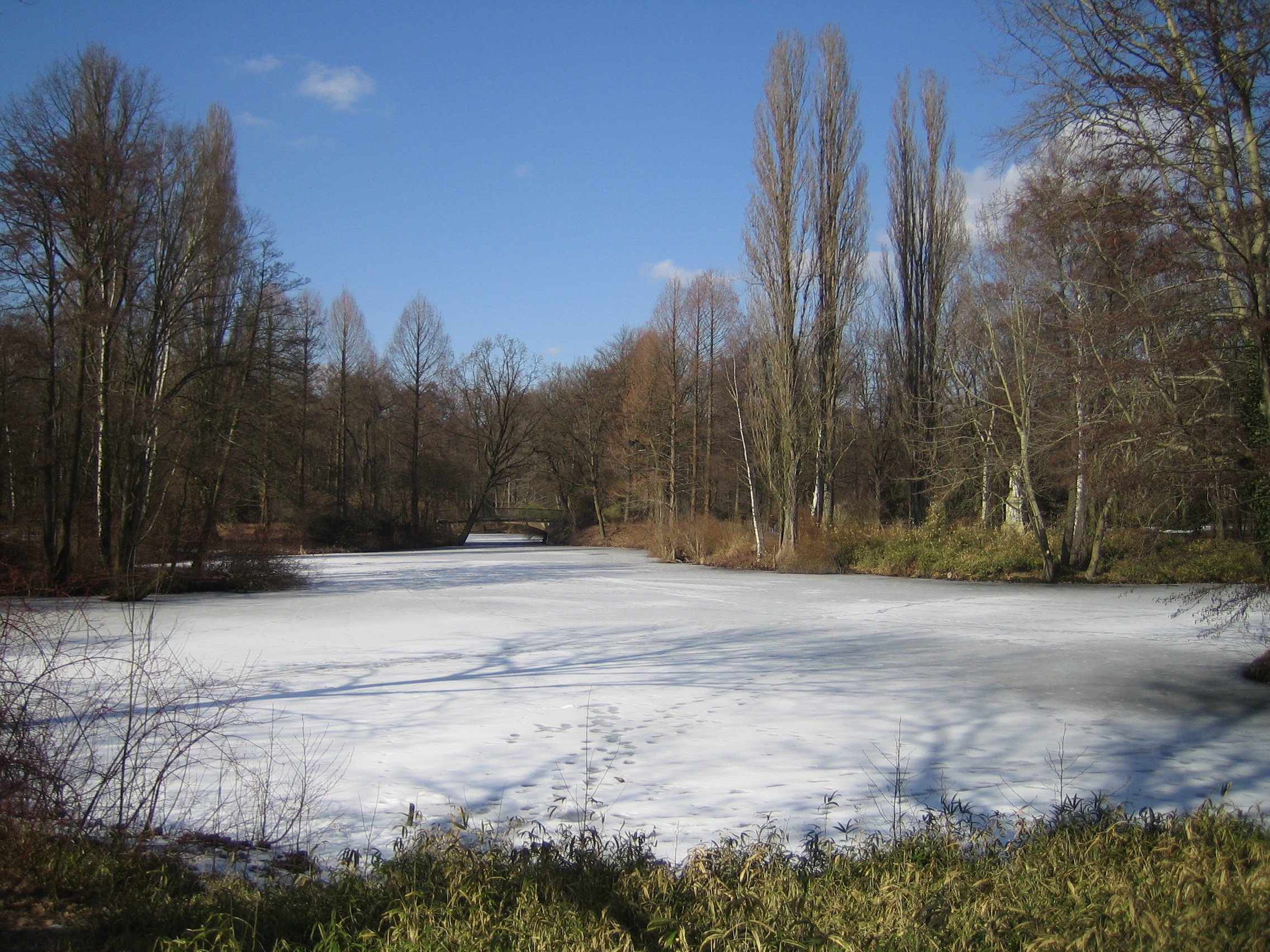 "Großer Tiergarten", a central park in Berlin-Mitte (Germany). Winter.